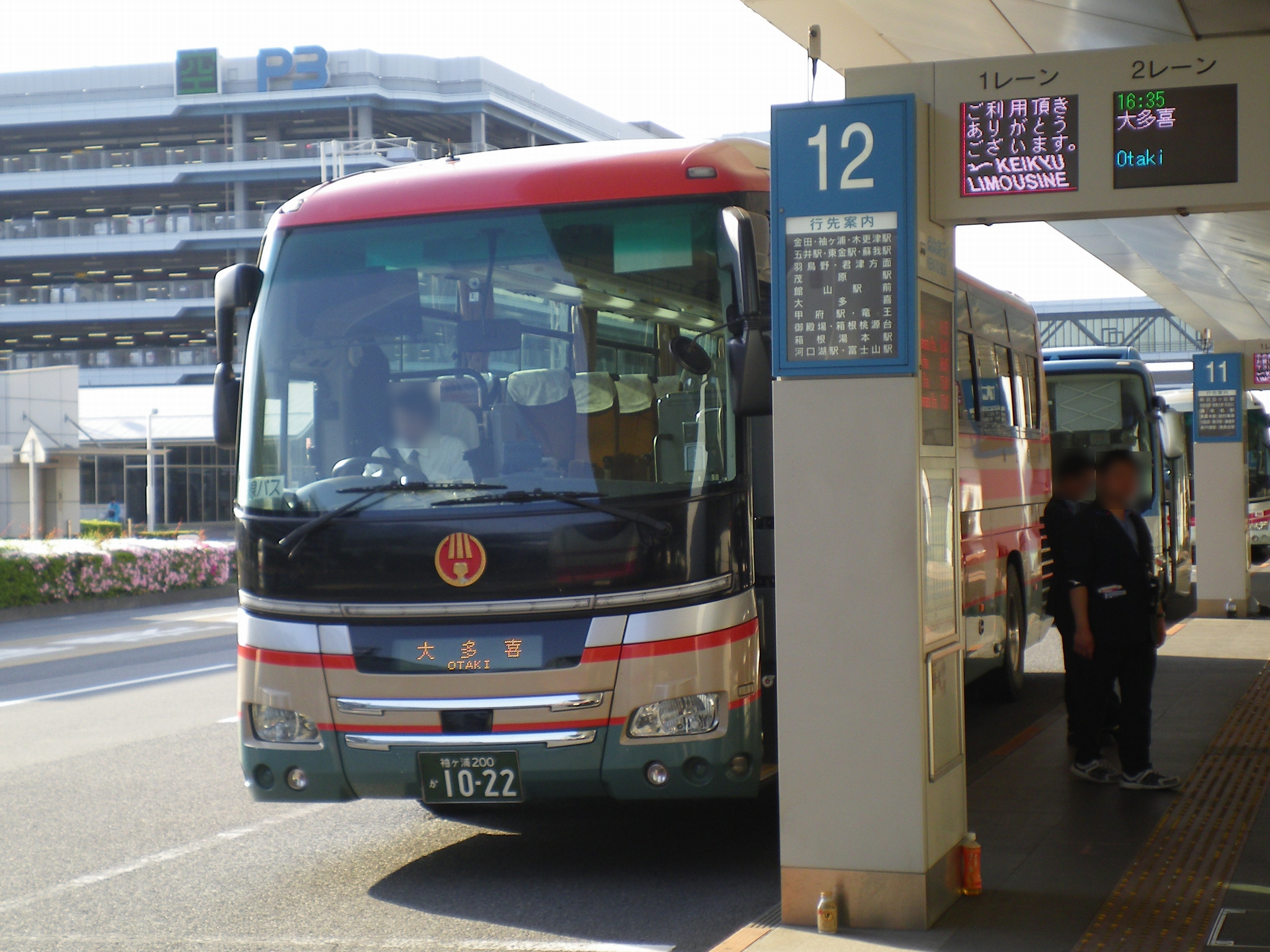 Hino,Selega. Shooting at Tokyo International Airport (Haneda Airport), 2nd Passenger Terminal.